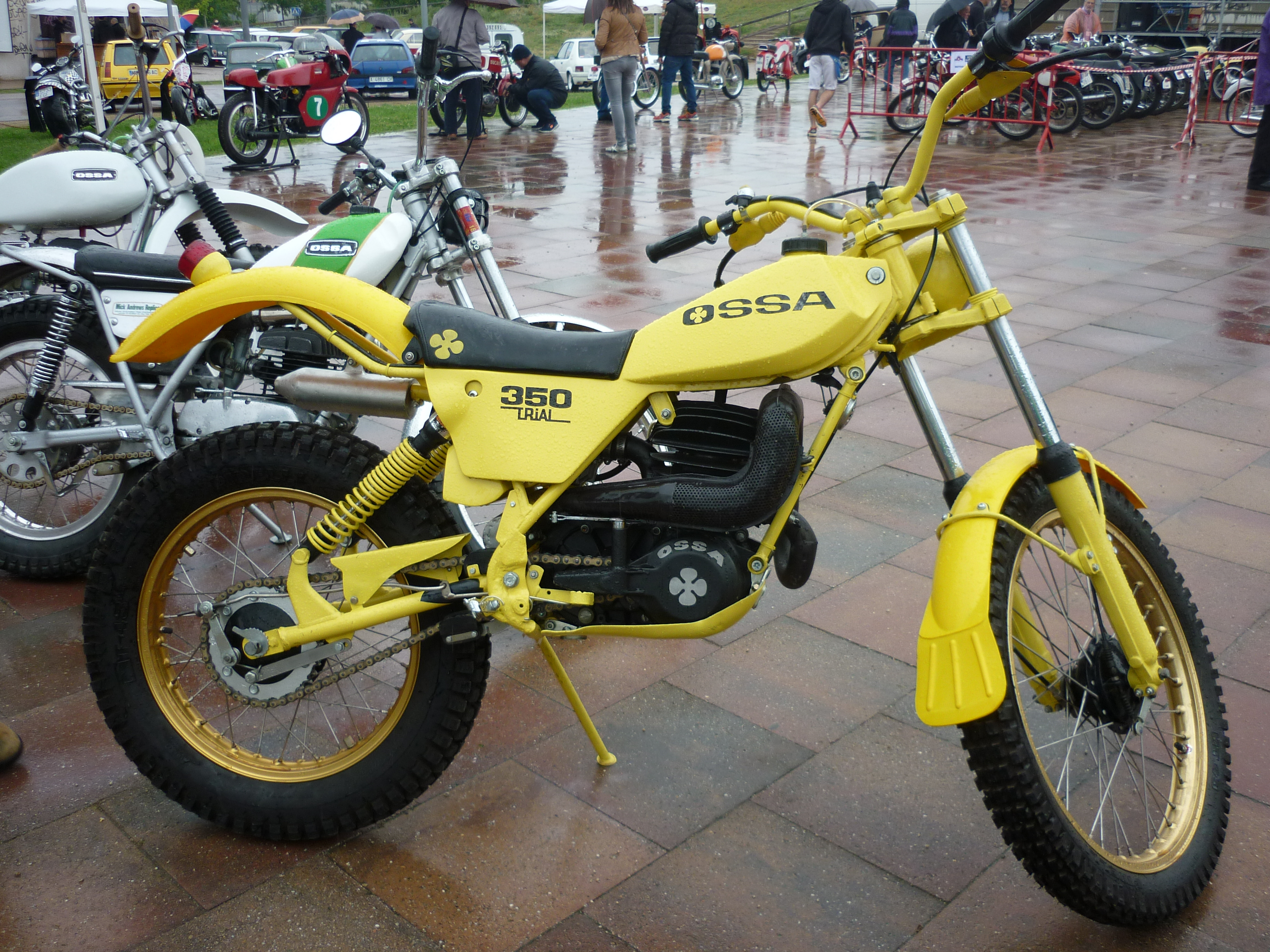 Ossa TR-80, 1980